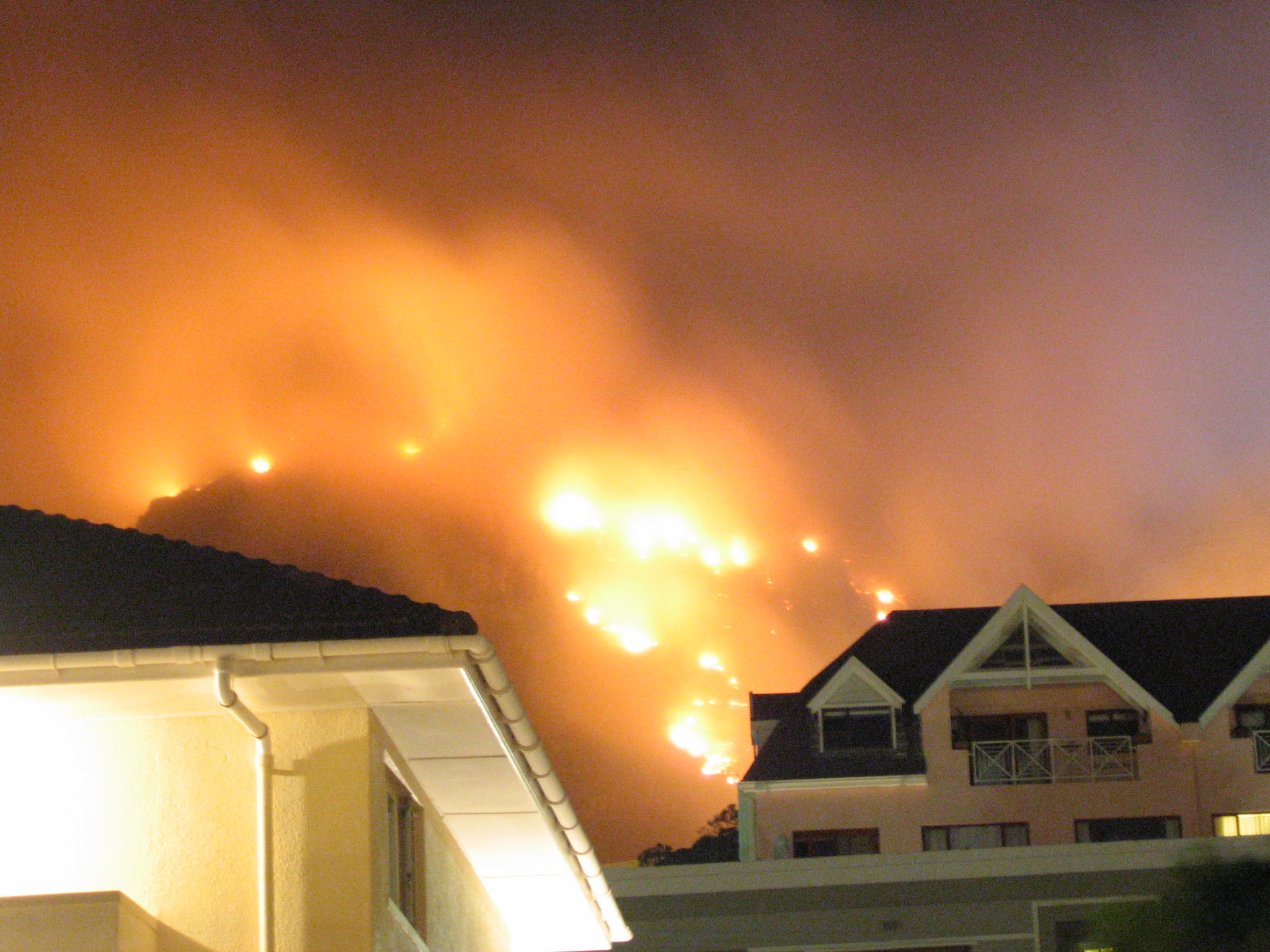 View from my back-yard towards Table Mountain (Cape Town, South Africa) as it burns through the night.